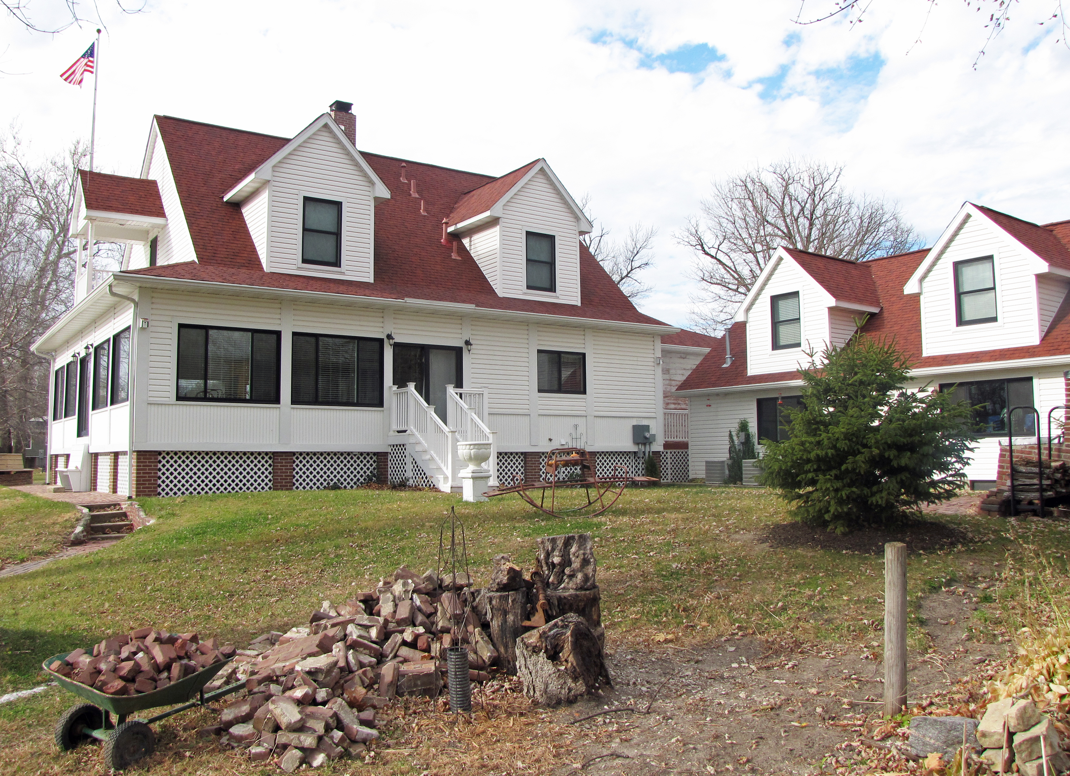 Fronting on the Iowa River in Iowa City, Iowa, an Englert relative's "replica" home on the site of the "summer cottage" of Will and Etta Englert across from City Park on their privately-owned Brighton Beach, where a separate facility was operated as a commercial recreation venue for swimming, boating, sledding, ice skating, and parties of all sorts from family gatherings to public celebrations.